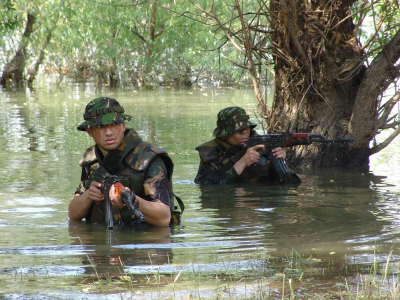 Romanian GNFOS soldiers during a training mission along the Danube. GNFOS stands for Grupul Naval de Forțe pentru Operații Speciale (Special Operations Task Force Group).